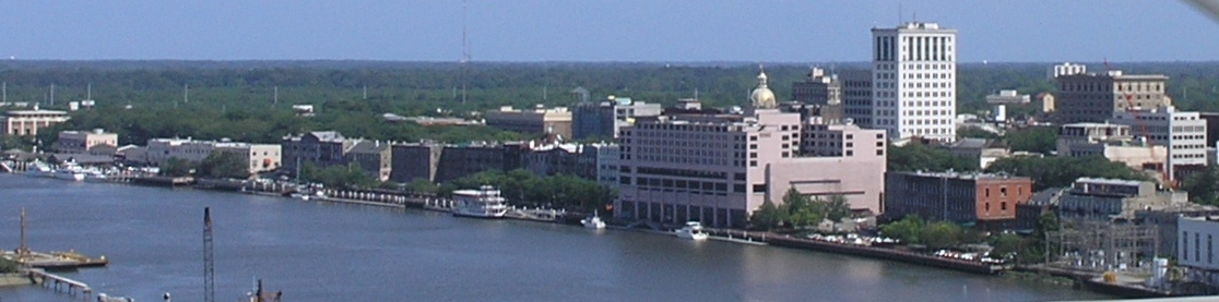 Image of Savannah, Georgia